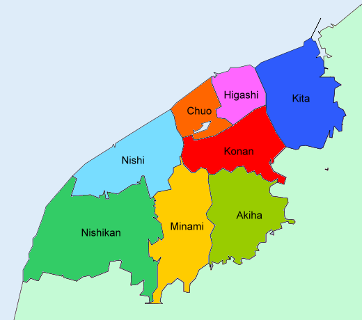 Map of wards of Niigata